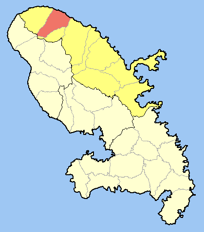 Location of Basse-Pointe within Martinique